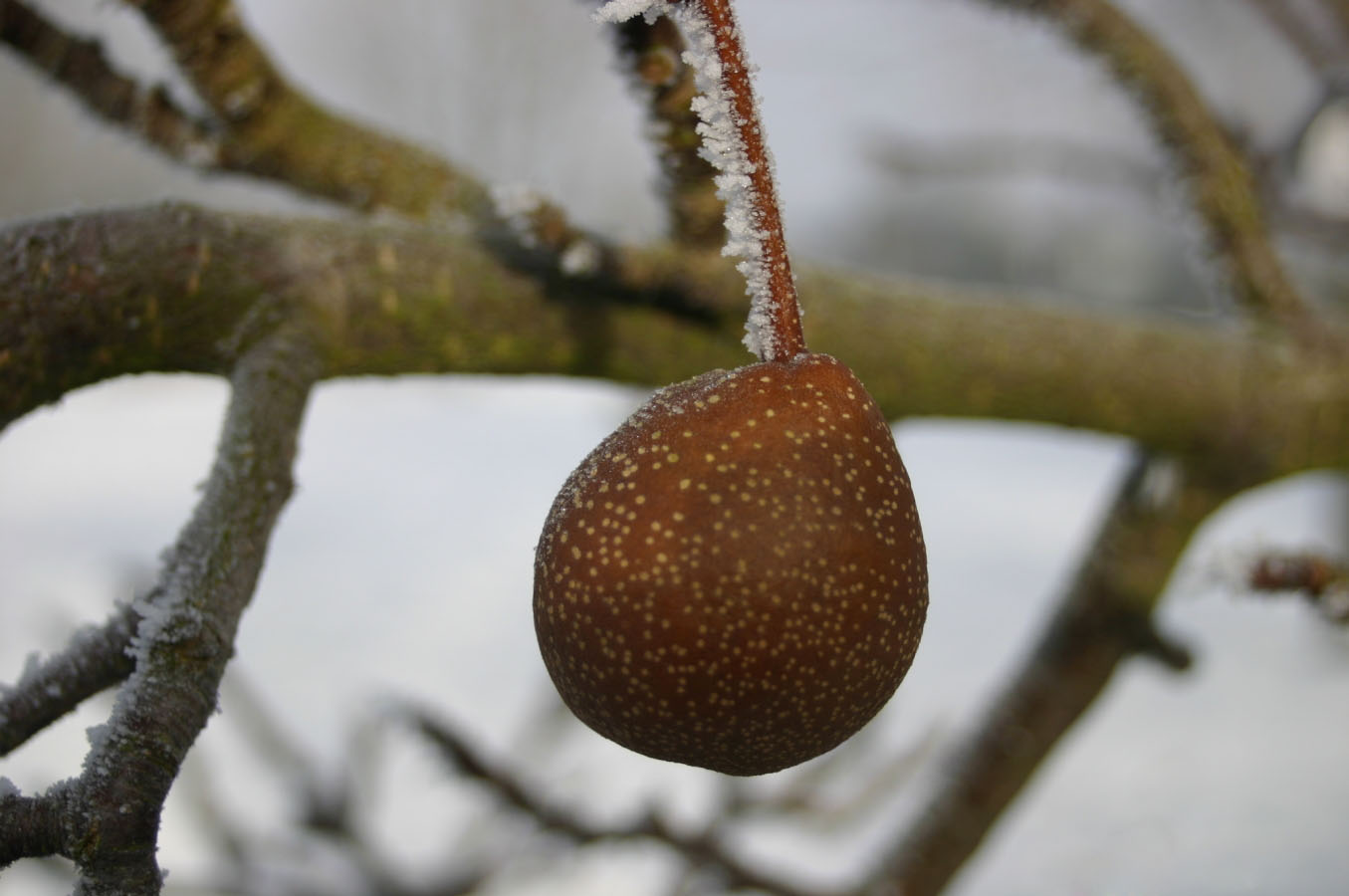 Pyrus ussuriensis: Fruits in January. Jutland, 4 km from the sea. Photo: Sten Porse